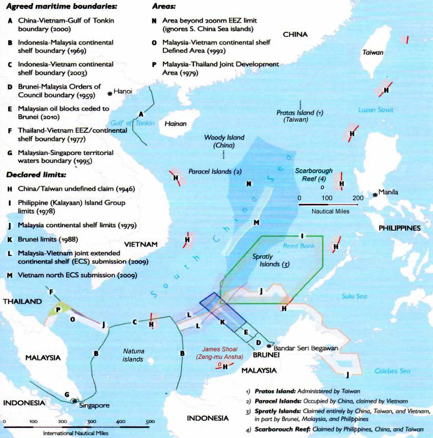 A map of South China Sea Claims and Boundary Agreements. Source: U.S. Department of Defense’s Annual Report on China to Congress, 2012